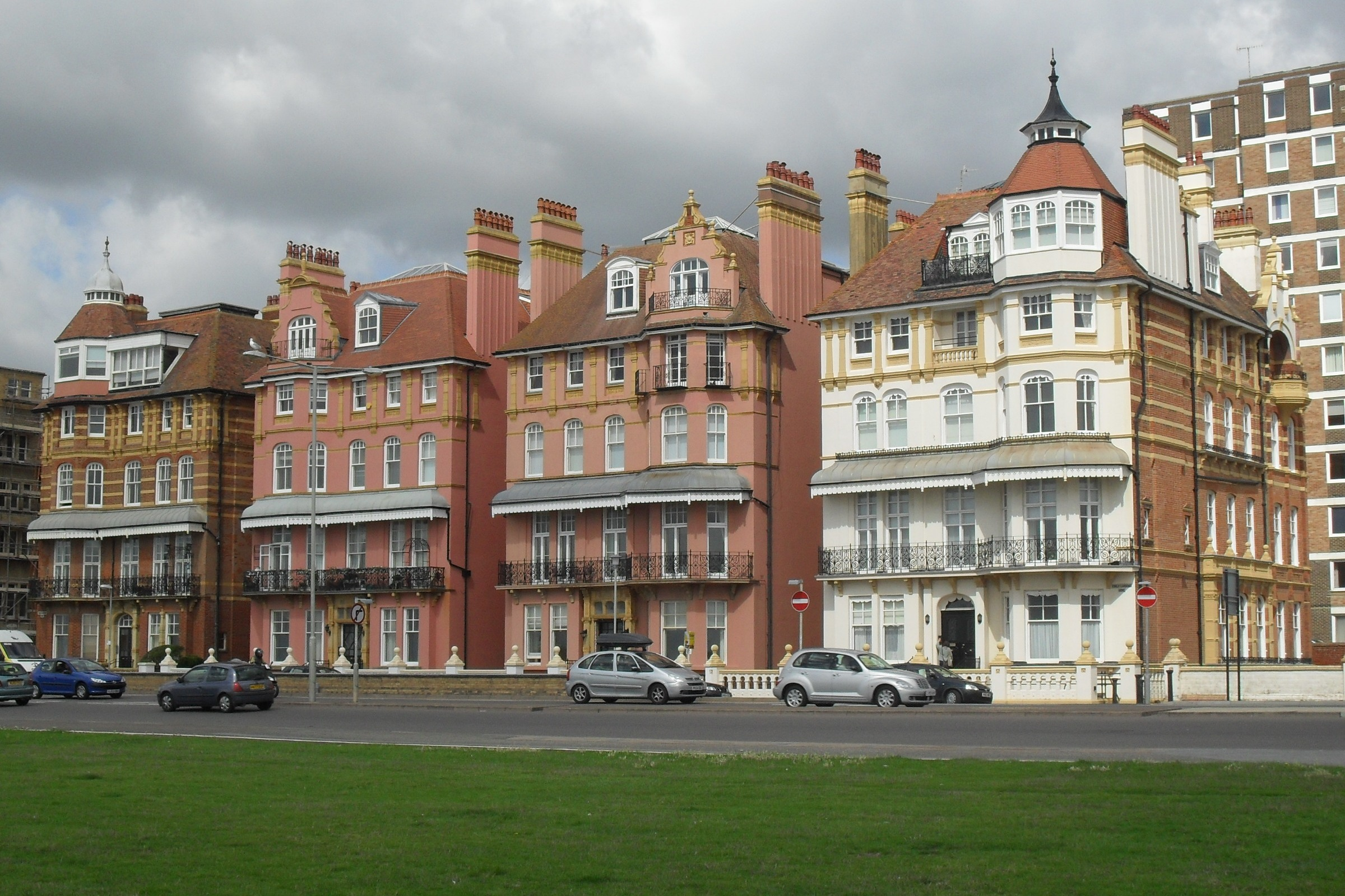 1 to 4 King's Gardens, Hove, City of Brighton and Hove, East Sussex, England. Distinctive, large late 19th-century houses on the seafront in Hove; part of "The Avenues" Conservation Area. Each house is individually listed at Grade II by English Heritage.